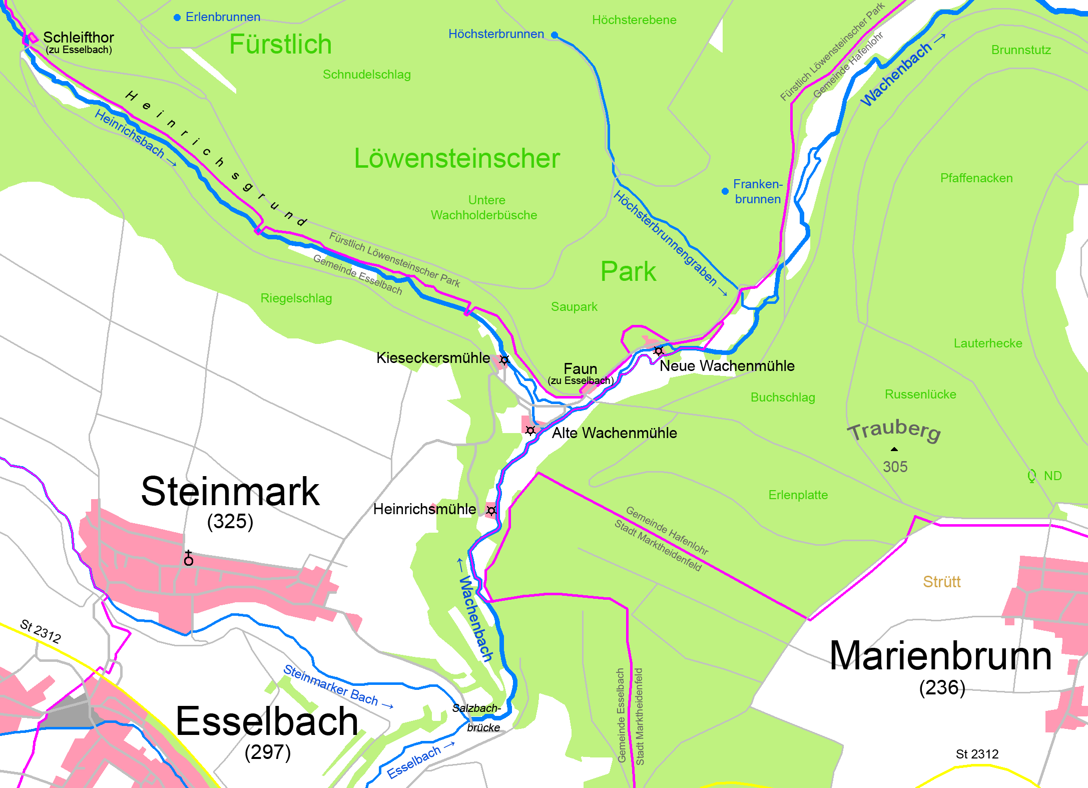 Map of the Wachengrund near Esselbach on the edge of southeast of the Spessart in Bavaria Settlement area Industrial area Forest Grassland, Meadow Body of water spring Watermill Main street Side street Agricultural road and Forest road Municipality border Church Mountain 305 Above sea level Fink Field name